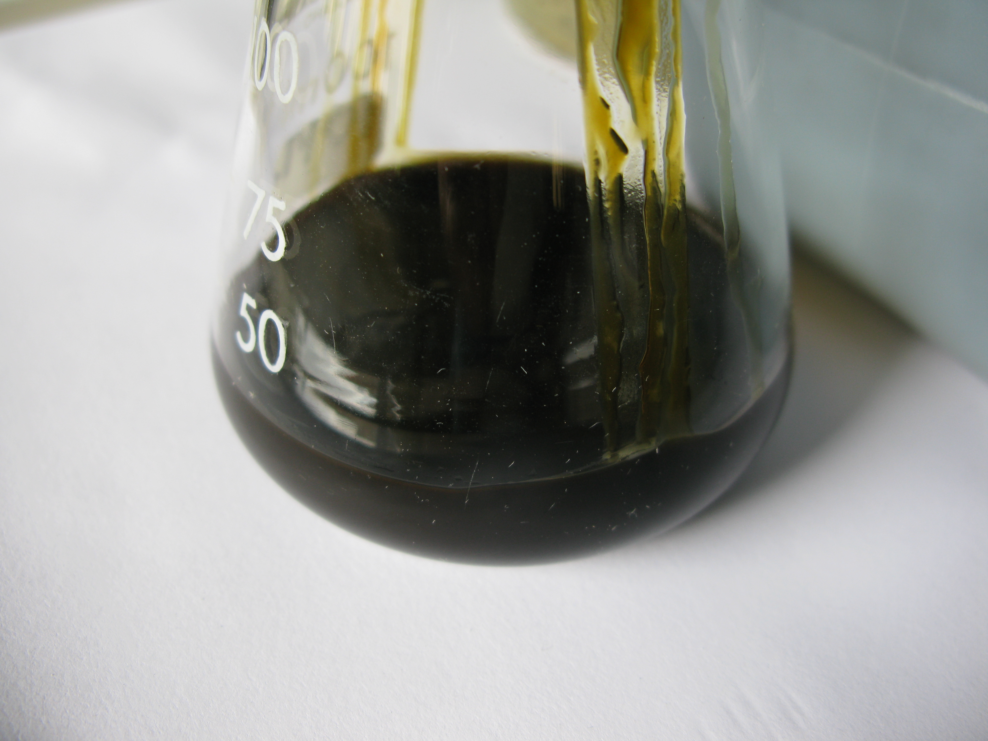 Stearoptene residue obtained by lemon essential oil distillation